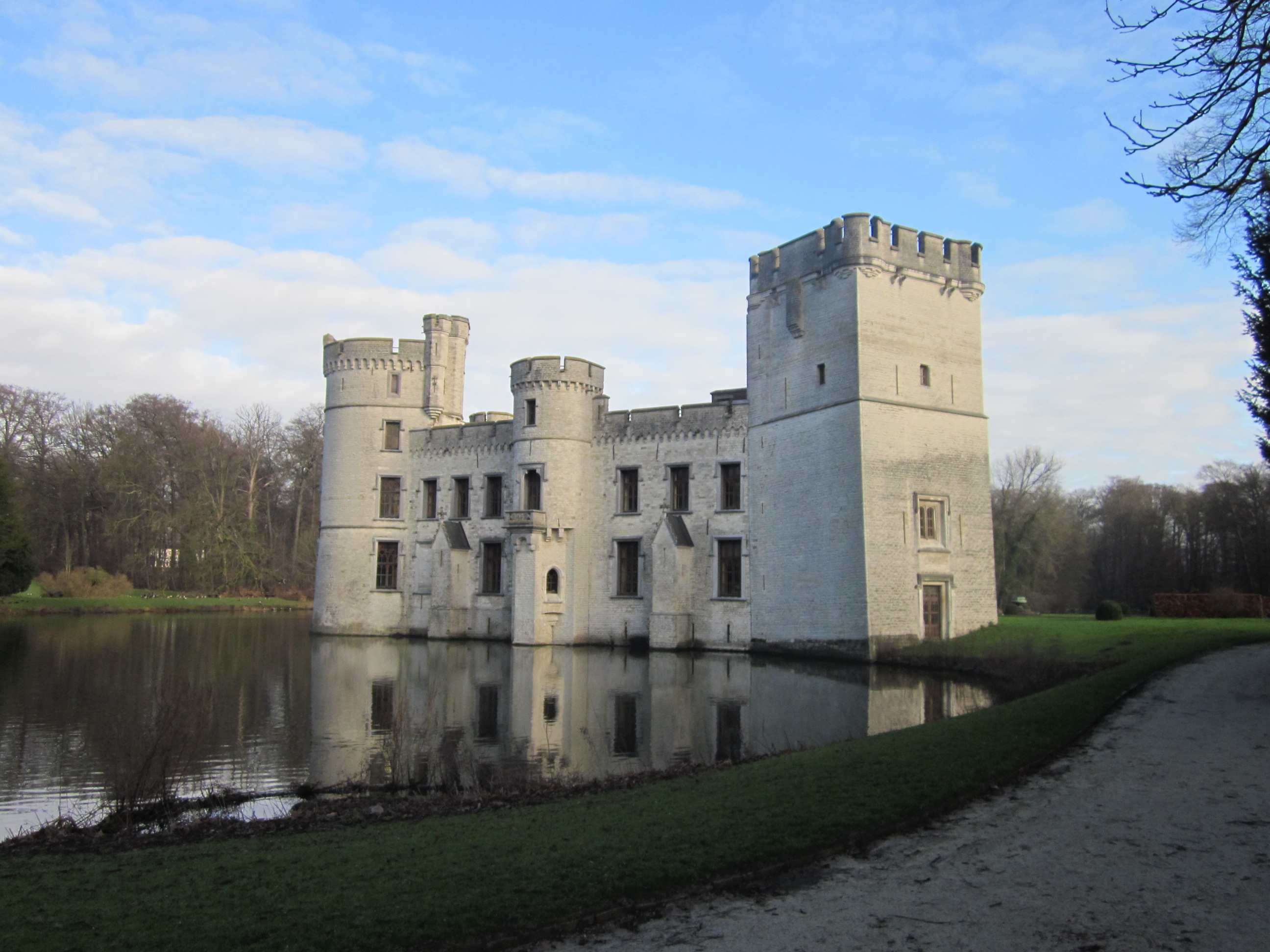 National Botanic Garden of Belgium in Meise: Bouchout Castle